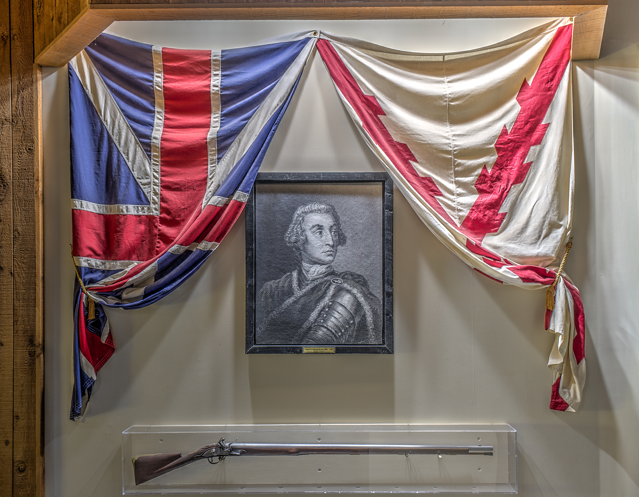 James Oglethorpe display at Wormsloe Historic Site